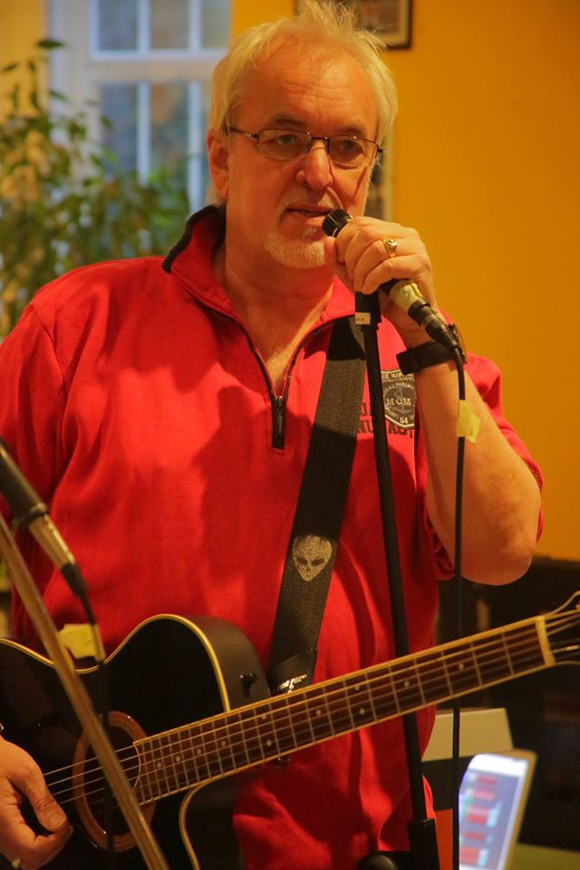 Jürgen Stark is an german Author, journalist, lecturer and musician.